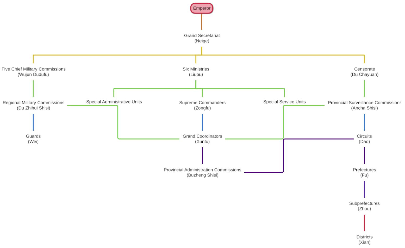 Ming government structure